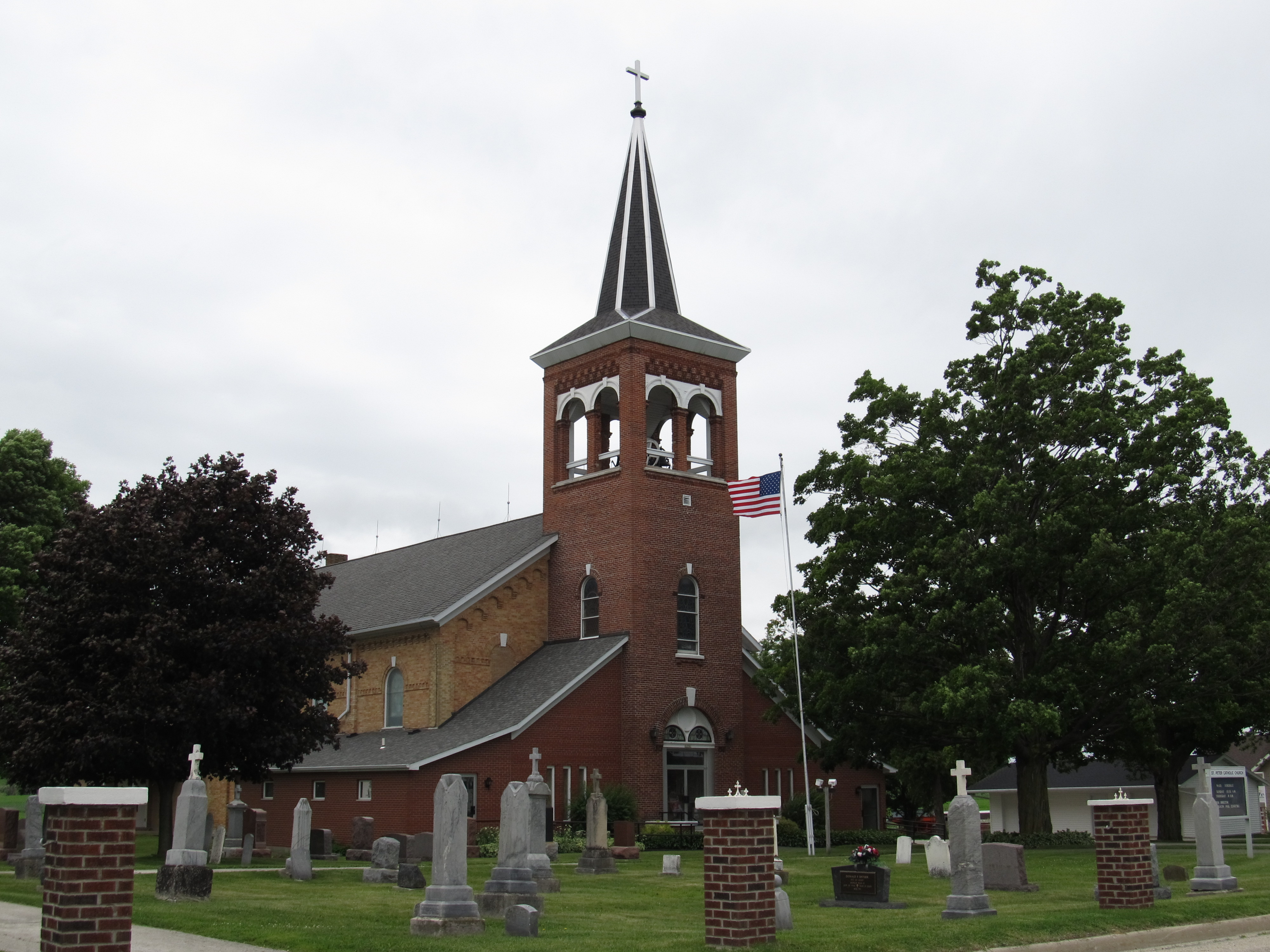 St. Peter's Catholic Church, Lincoln, Wisconsin on June 28, 2013